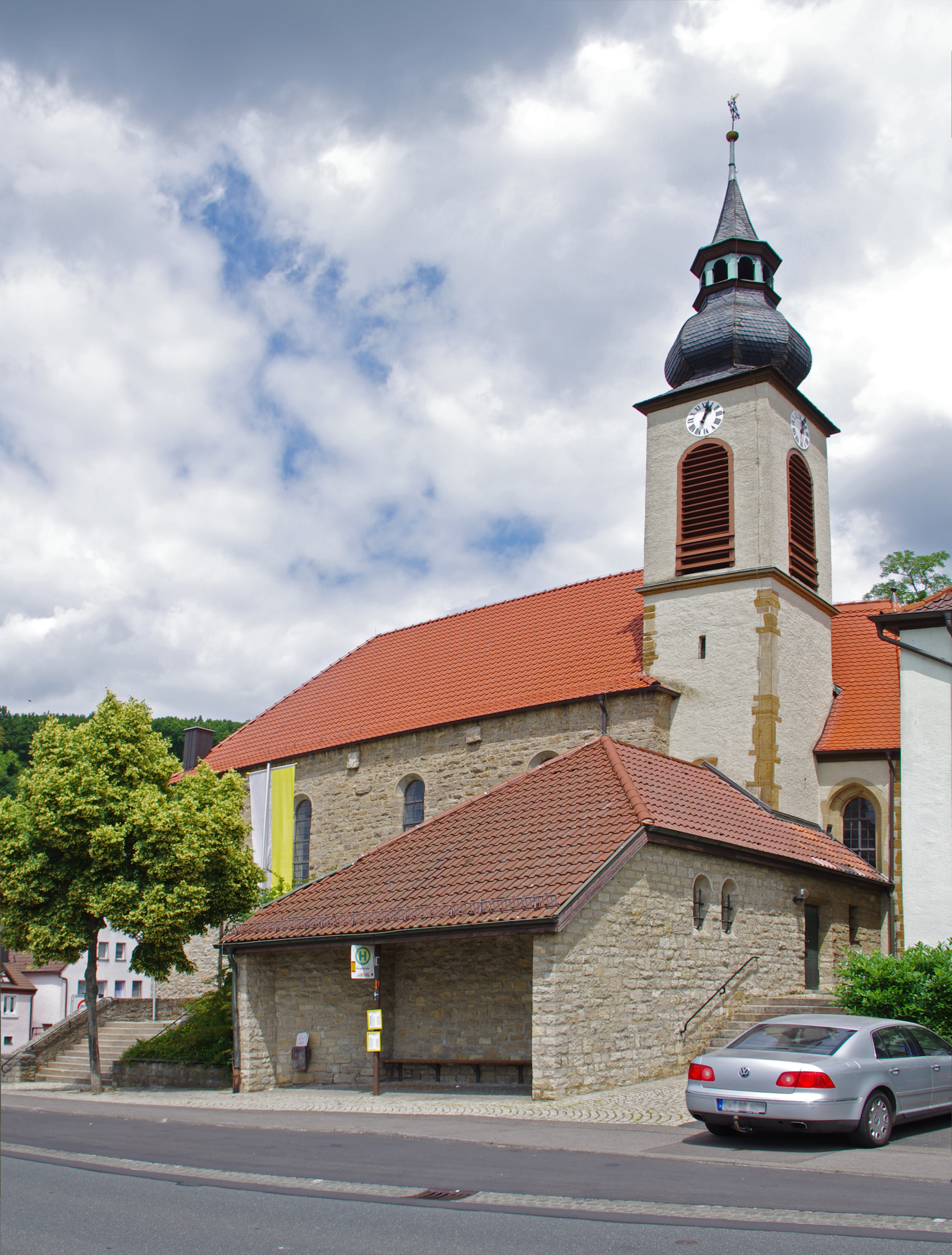 Google Maps - Google Earth